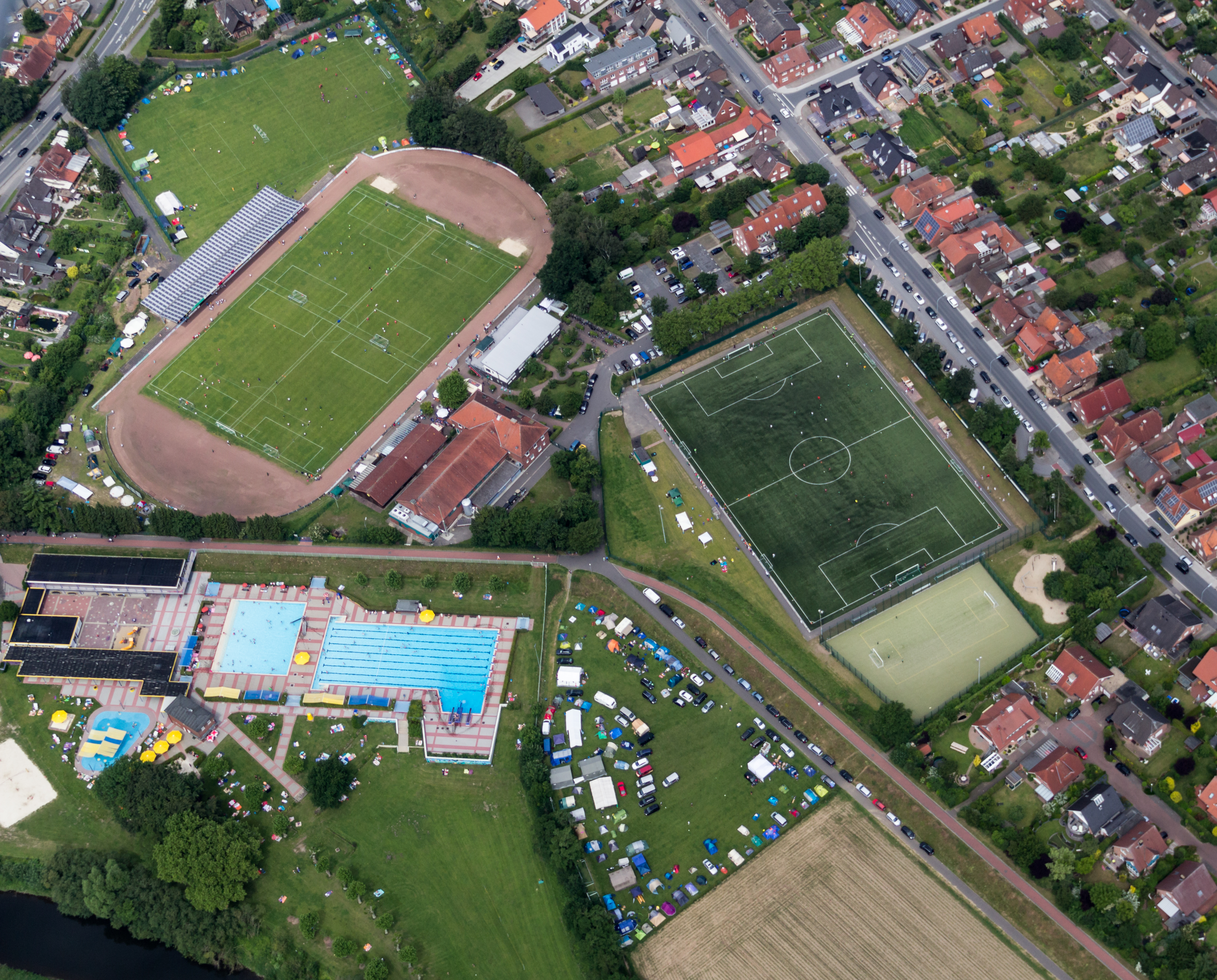 Lido Schöneflieth, Greven, North Rhine-Westphalia, Germany